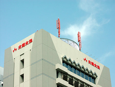 Daido Fire & Marine Insurance Head Office